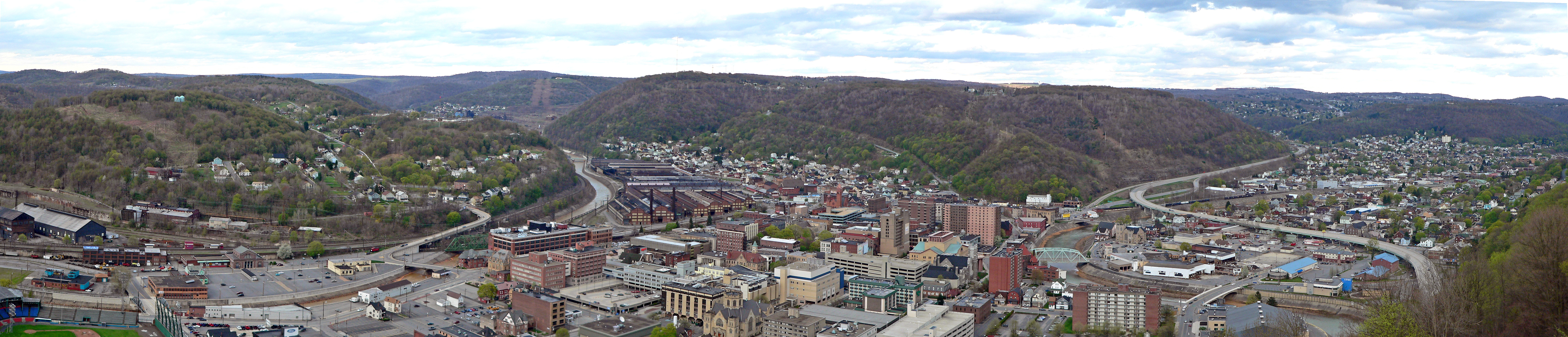 Panorama of Johnstown, Pennsylvania